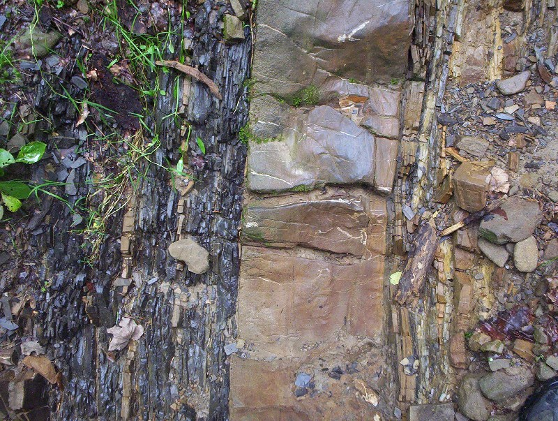 Carpathian flysch near Jabłonki, Bieszczady, Poland.